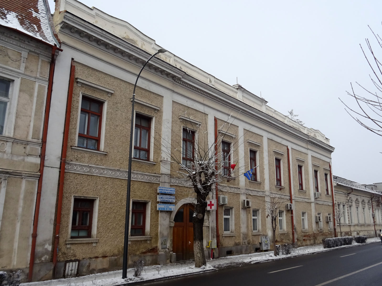 Revoluției street, house number 35 (hospital)